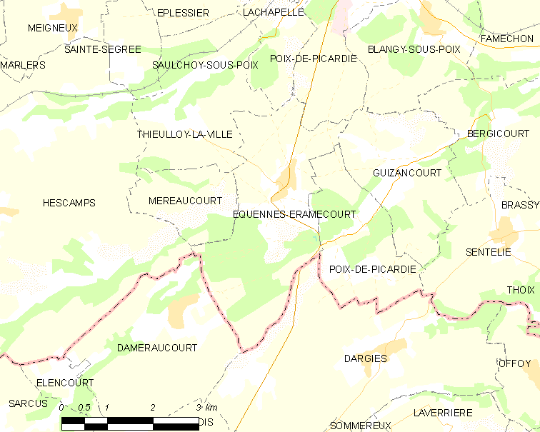 Map of French municipality Équennes-Éramecourt